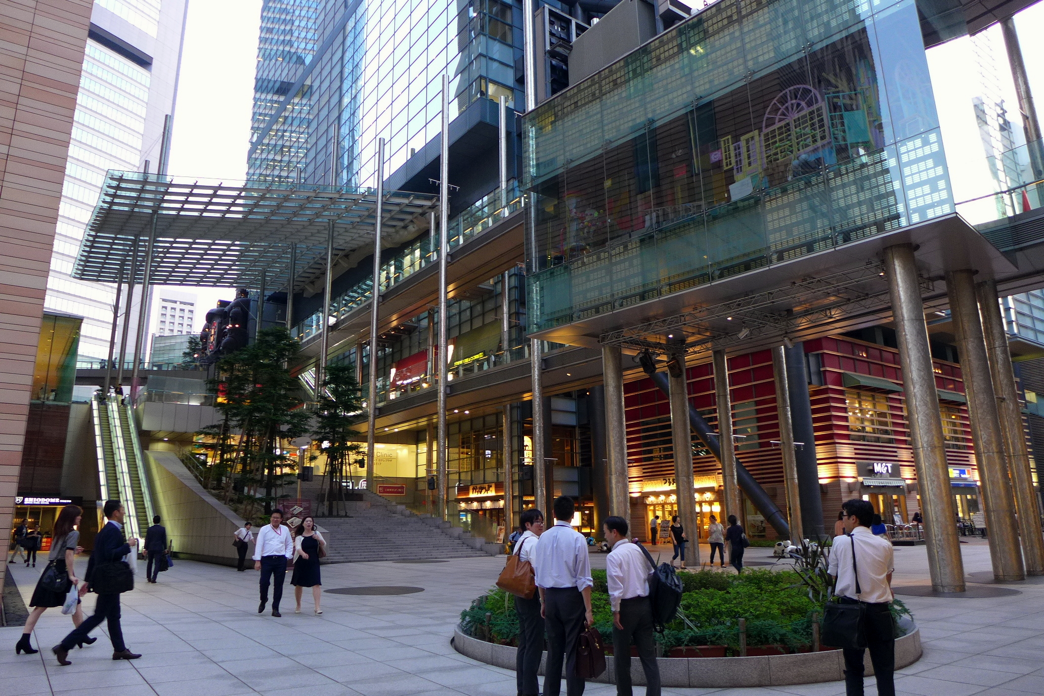 Shiodome NTV Tower outside space